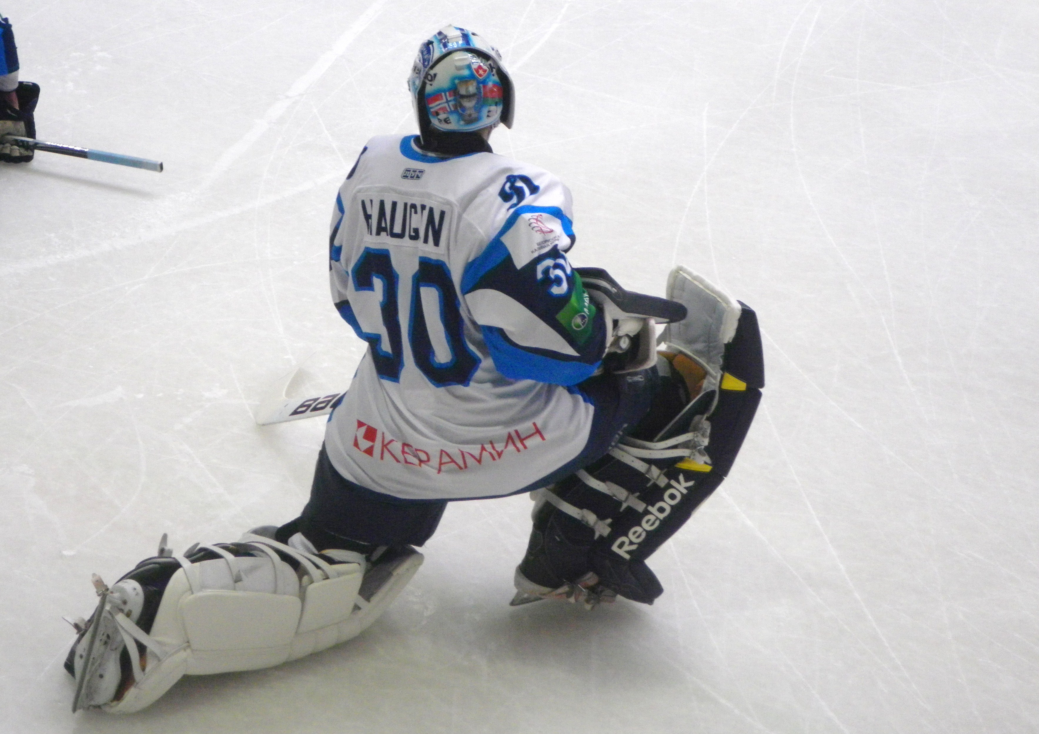 Lars Haugen, norvegian ice hockey player with Dinamo Minsk.